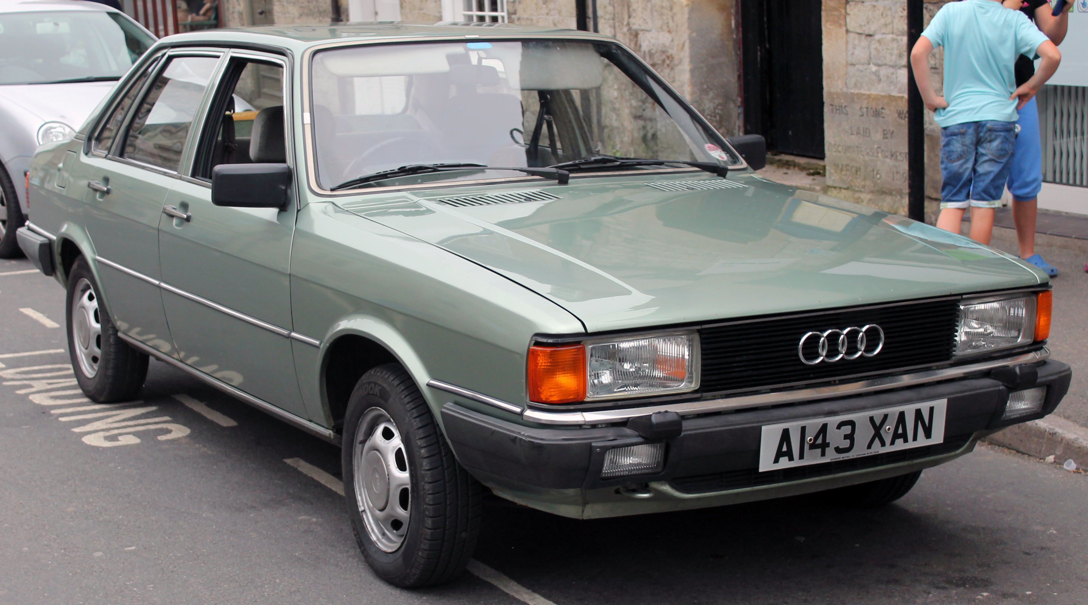 Second time I've spotted this one, but here it's literally a few hundred feet from where I live! Seen outside the local Co-Op is this perfect 1983 Audi 80 in an actually rather nice light green colour. Looking almost perfect, like it would've done when it first rolled out of the showroom 30 years ago! Mileage must be low, or it's just very well looked after! Lovely, and I really like these, but numbers are dwindling. This is one of 58 on the roads. The vehicle details for A143 XAN are: Date of Liability 01 03 2014 Date of First Registration 30 09 1983 Year of Manufacture 1983 Cylinder Capacity (cc) 1780cc CO₂ Emissions Not Available Fuel Type PETROL Export Marker N Vehicle Status Licence Not Due Vehicle Colour GREEN Vehicle Type Approval Not Available